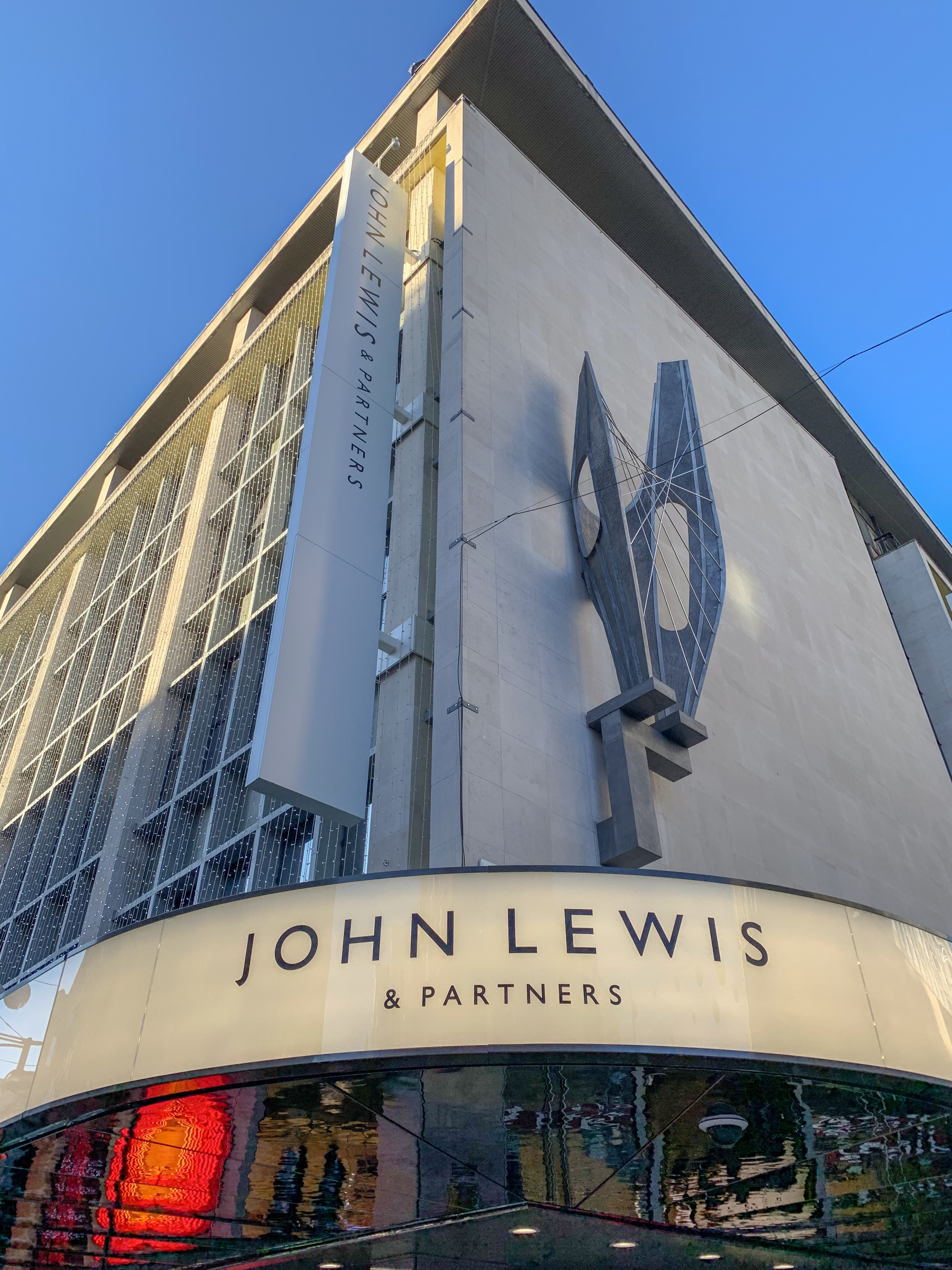 John Lewis & Partners Oxford Street store front